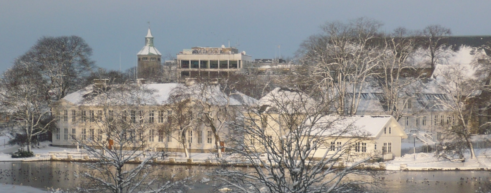 The Kongsgård in Stavanger